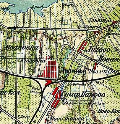 Map of Ligovo (suburb of Saint Petersburg), 1917.